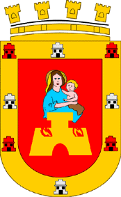 Coat of arms of both Colón Department and its capital Trujillo, Honduras